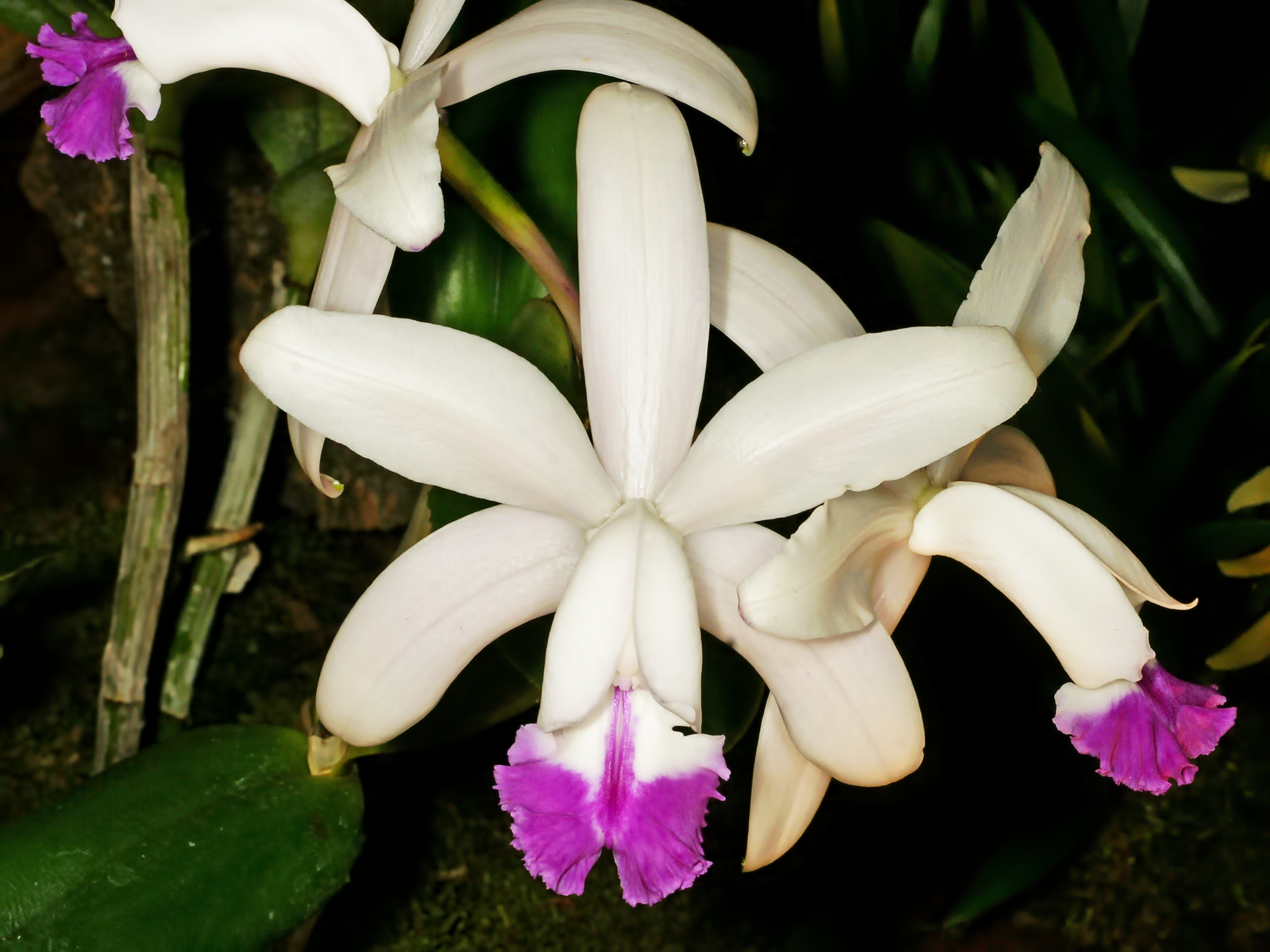 Cattleya intermedia